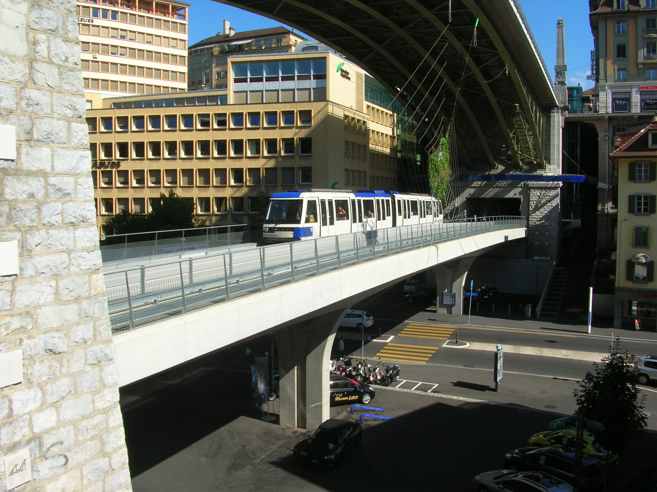 St-Martin Bridge, Lausanne, Switzerland, through Bessieres Bridge